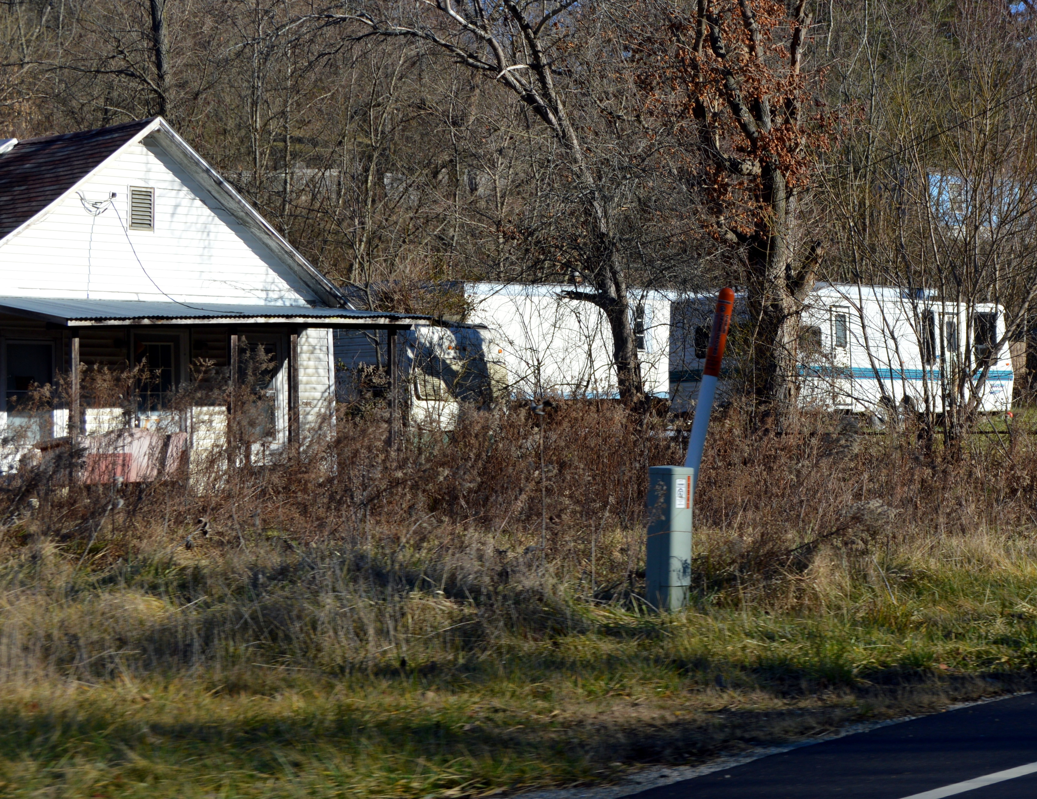 A cable box near houses on State Route 93 in central Oreville in Falls Township, Hocking County, Ohio, United States.